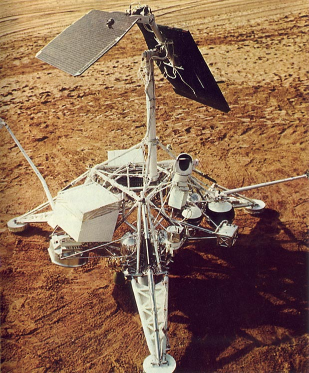 Full-scale mockup of the Surveyor spacecraft, displayed on a terrestrial beach.